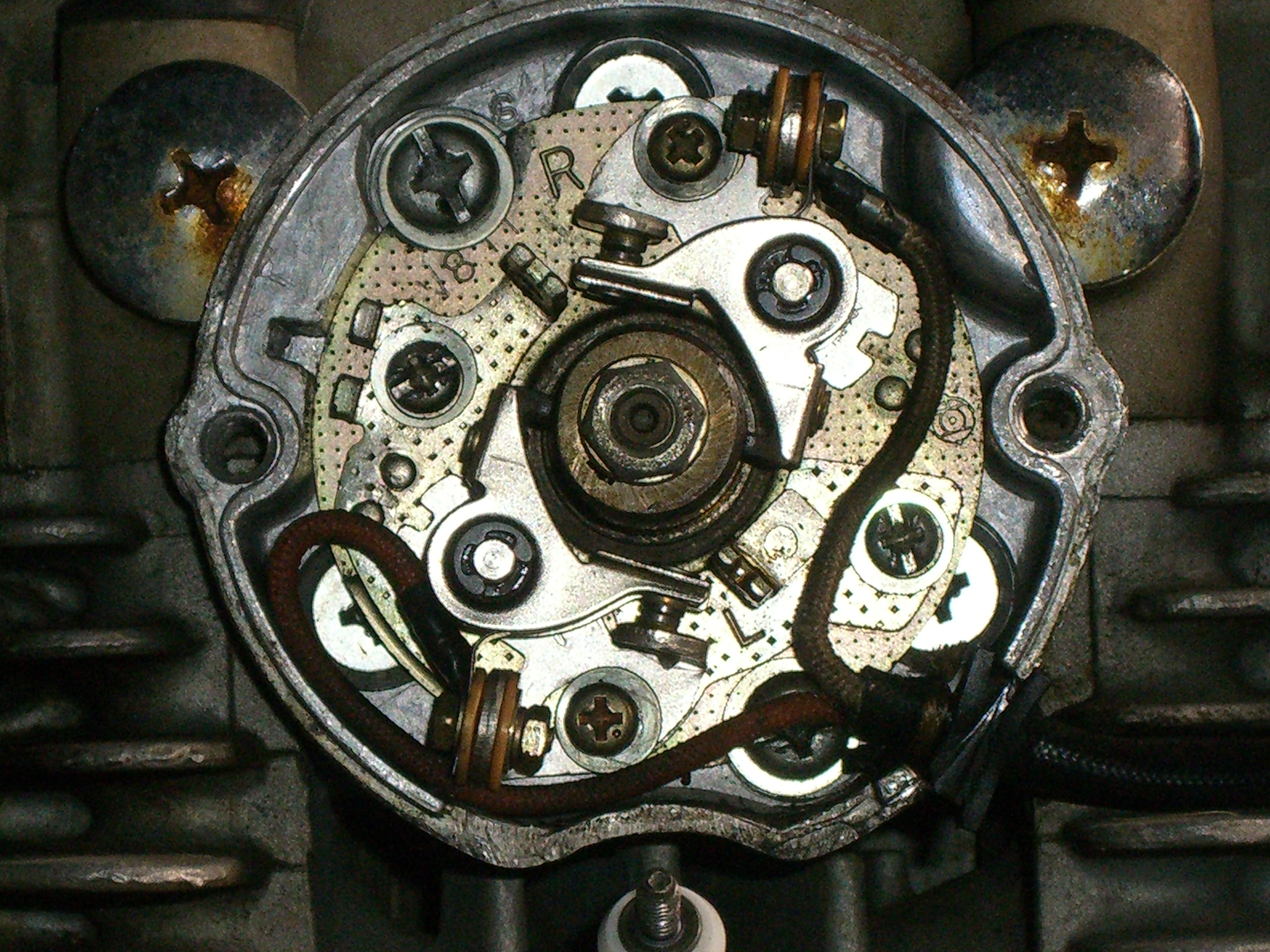 1979 Yamaha XS 650 Points Ignition